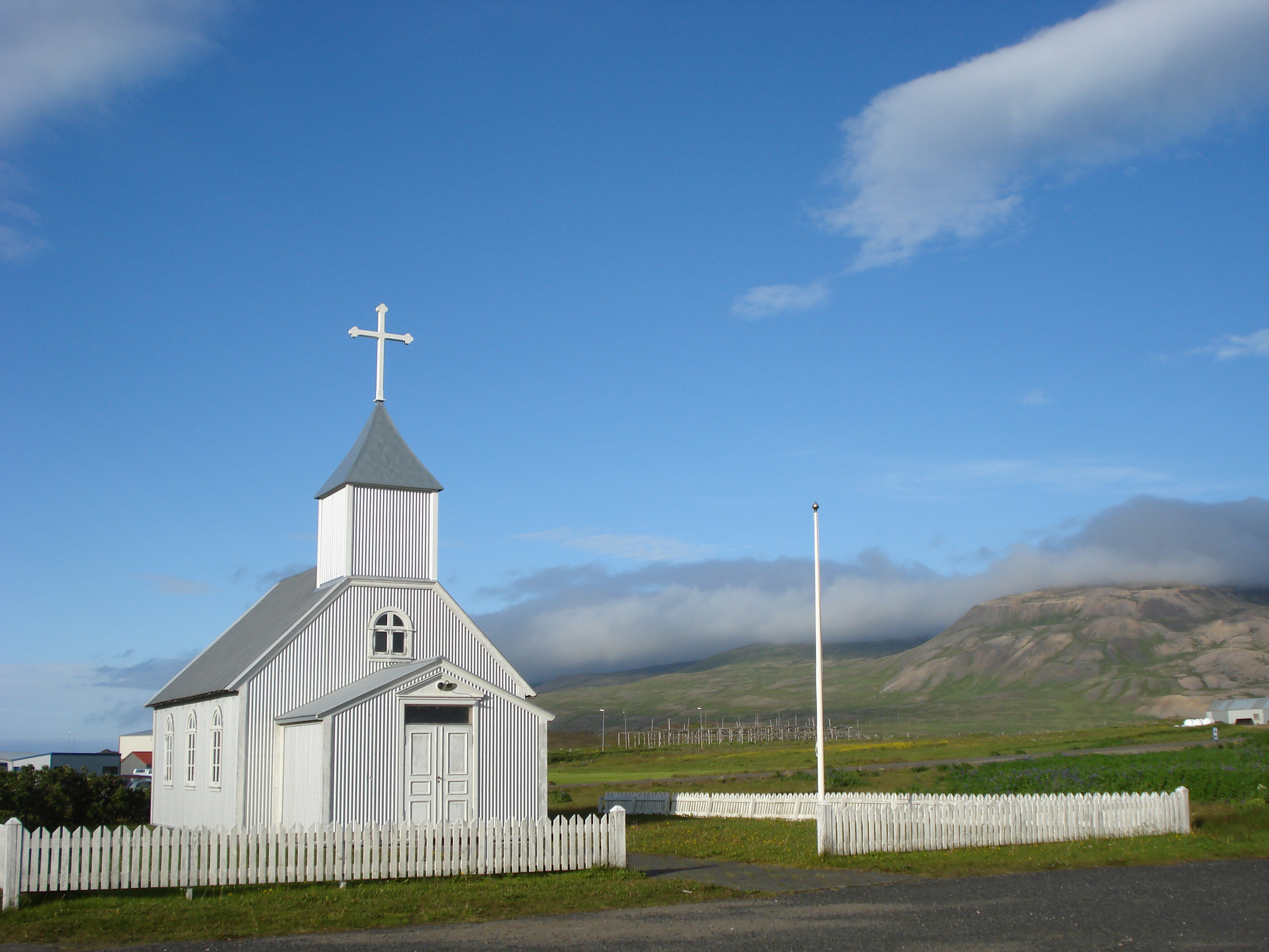 Church / Kirkja in Bakkagerði: Bakkagerðiskirkja, built 1901